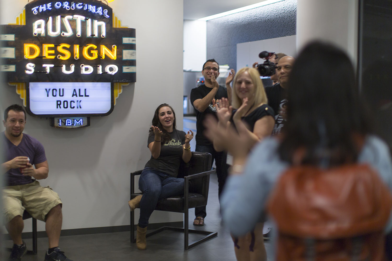 First Day Welcome to Bootcamp at IBM Austin TX Design Studio